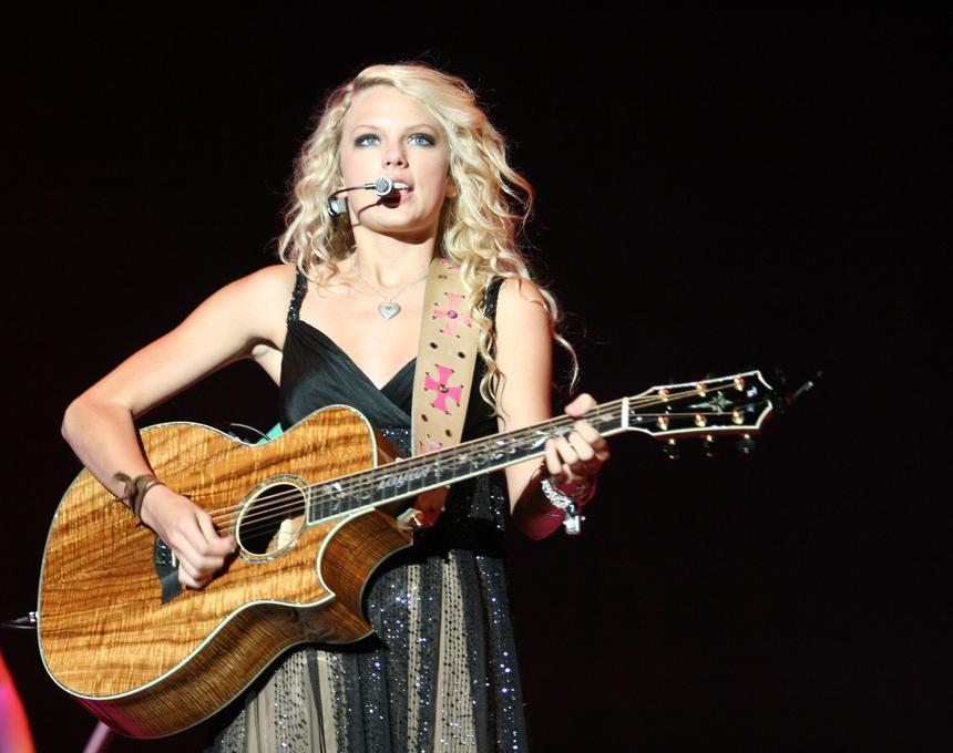 American country musician Taylor Swift performing live.